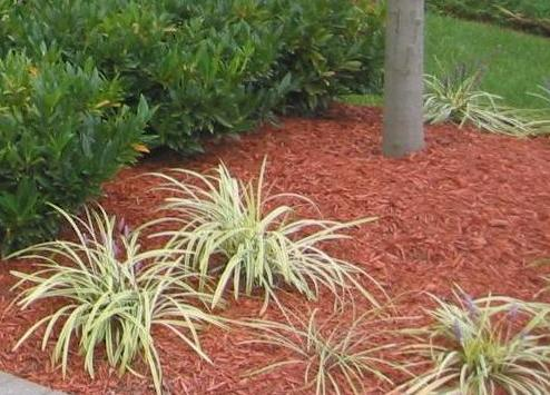 from